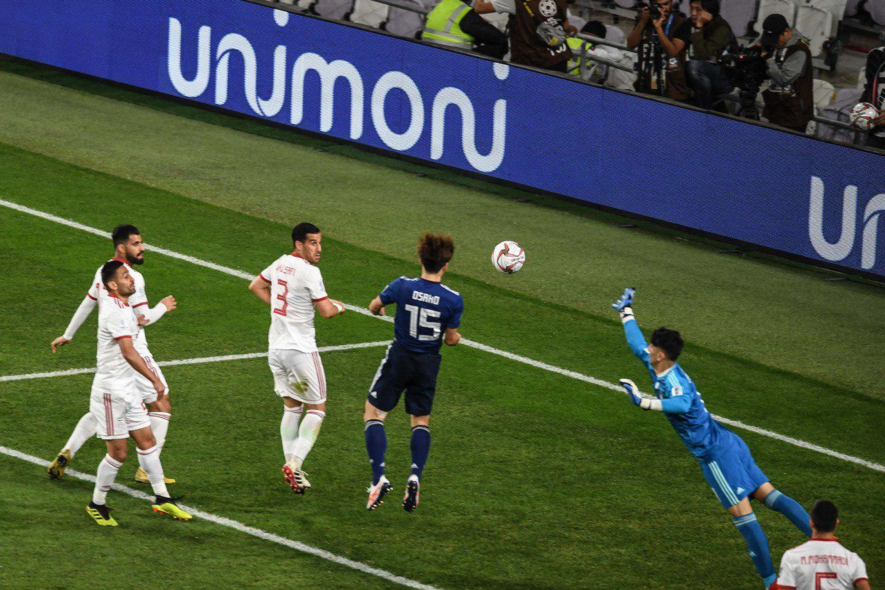 Iran-Japan, 2019 AFC Asian Cup Semi-final